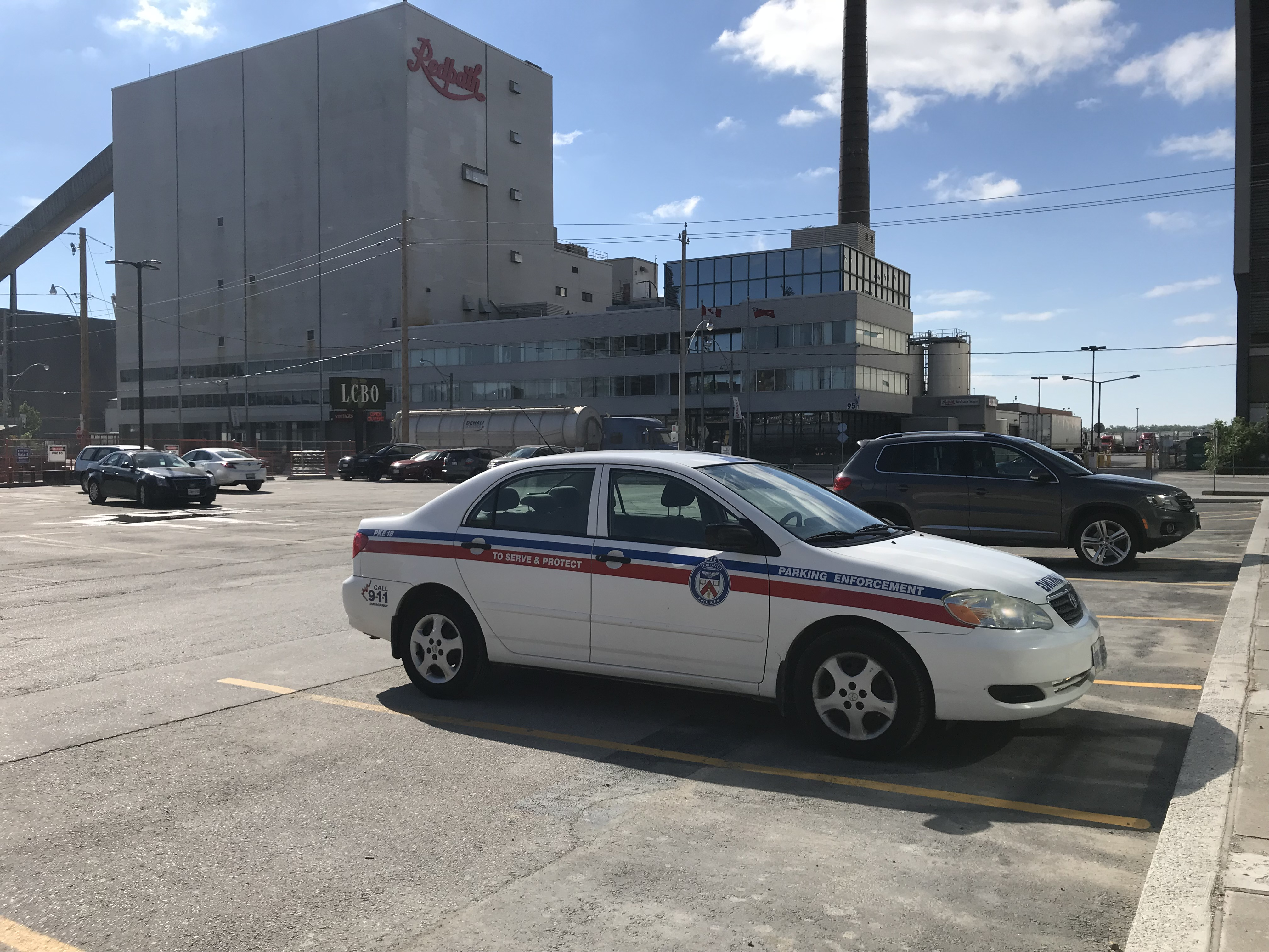 Toronto Police Service (TPS) Parking Enforcement vehicle 18 (PKE 18 / PKE18), Ontario license plates BERV 935. Parked outside an LCBO.